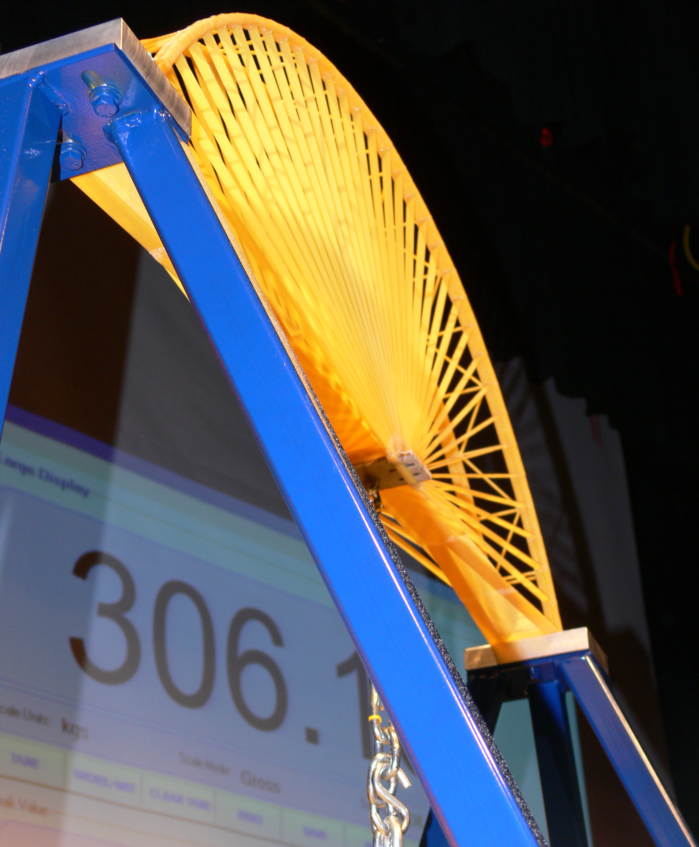 A Spaghetti bridge.